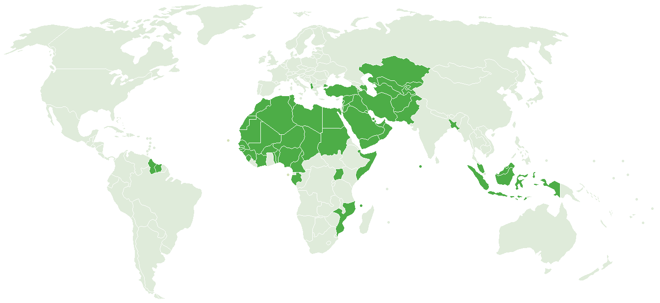 Map of the world showing the member states of the Organisation of the Islamic Conference.